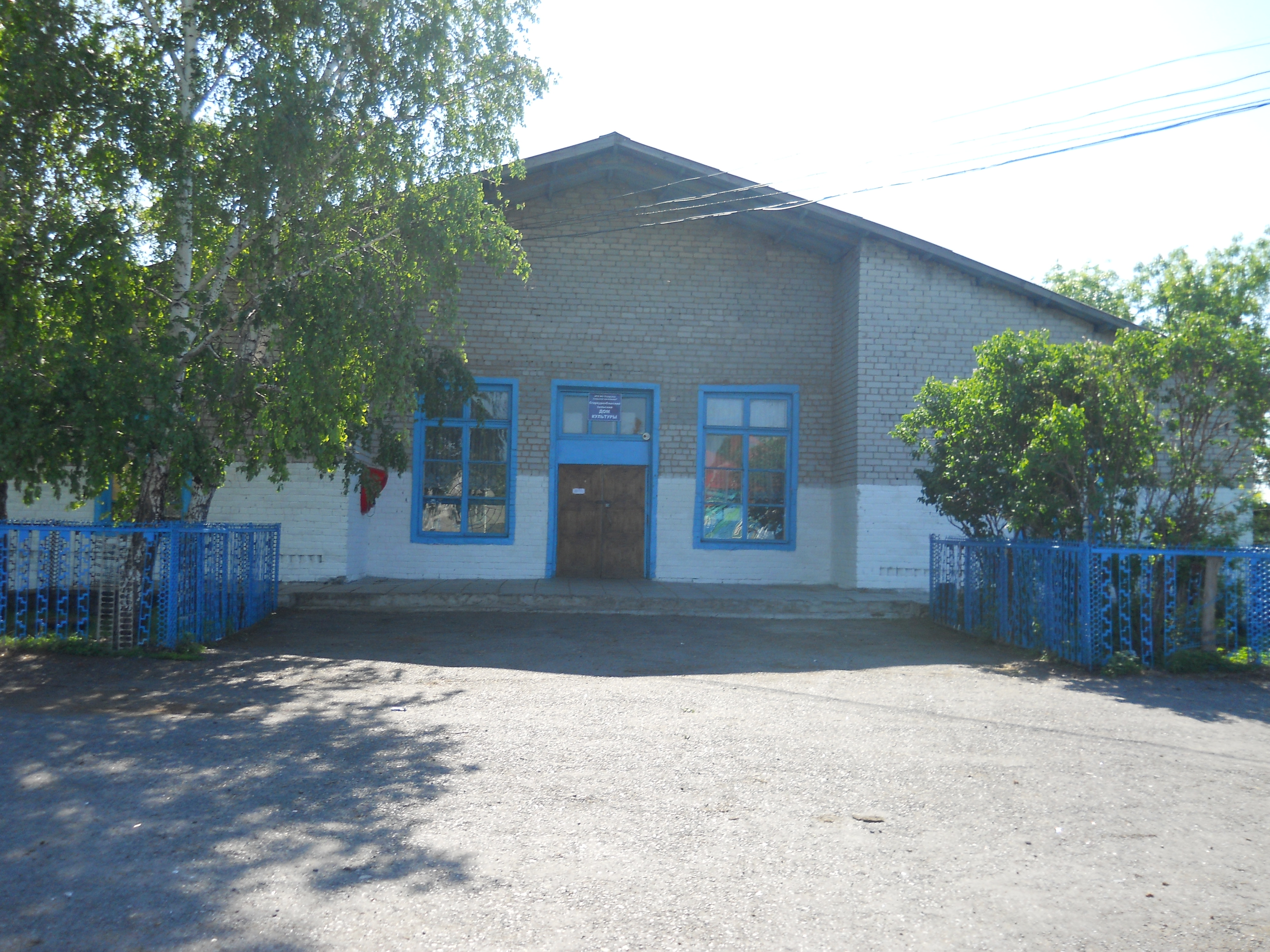 Староуренбашский Сельский Дом Культуры